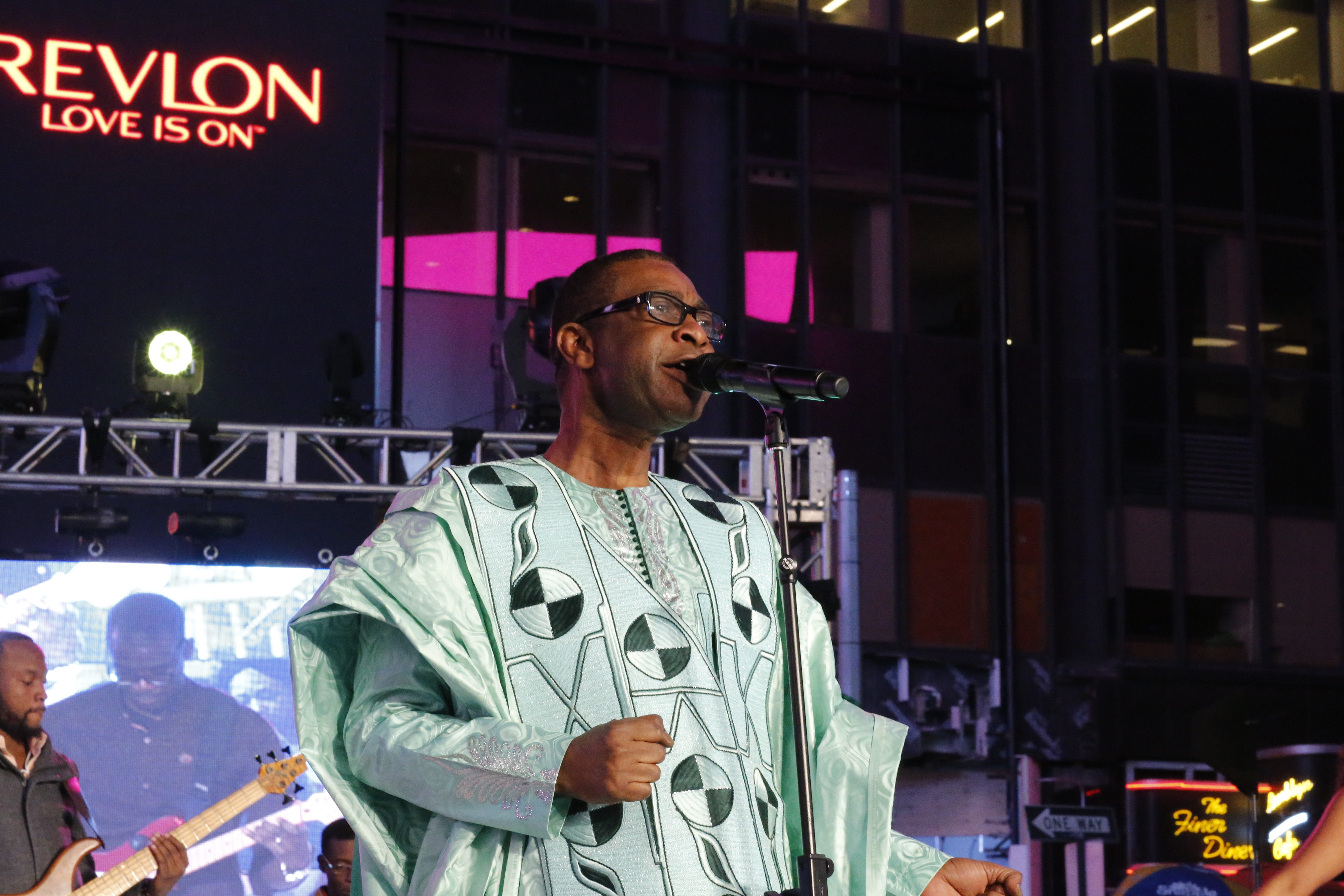 Save the Dream, in partnership with renowned Senegalese singer Youssou N’Dour, has launched a charity single at an event in New York aimed at promoting awareness for the plight of young refugees.